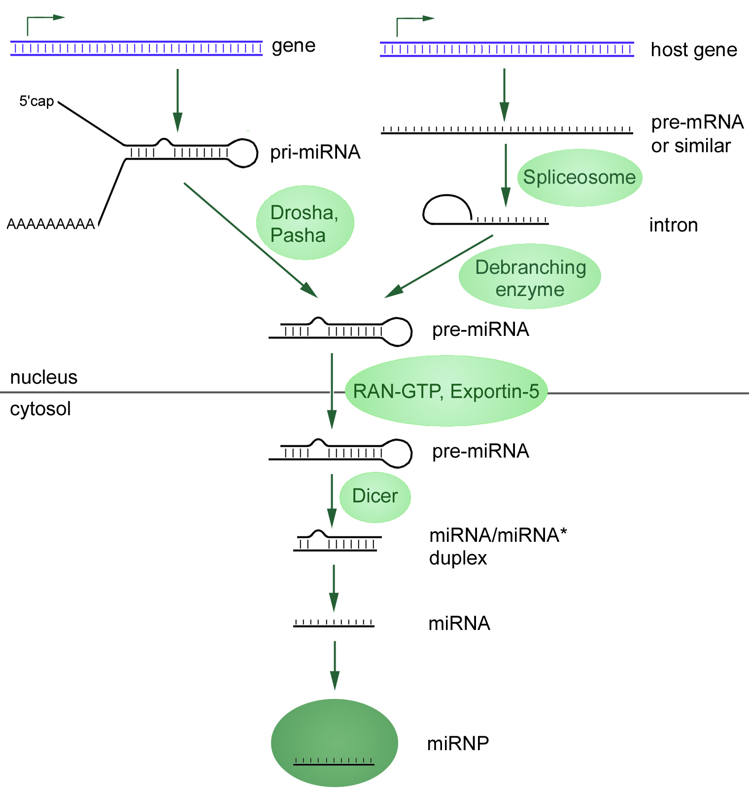 Overview of microRNA processing in animals, from transcription to the formation of the effector complex. There are two pathways, one for microRNAs from independent genes and one for intronic microRNAs. Enzymes in the picture:Drosha, Pasha (pri-miRNA → pre-miRNA)Spliceosome (pre-mRNA → intron lariat)Debranching enzyme (intron lariat → RNA that can fold into pre-miRNA)RAN-GTP, Exportin-5 (export from nucleus)Dicer (pre-miRNA → miRNA) Abbrevations: pri-miRNA = primary microRNA transcriptpre-mRNA = precursor messenger RNApre-miRNA = precursor microRNA miRNA = microRNA miRNA* = antisense microRNA miRNP = microRNA ribonucleoprotein